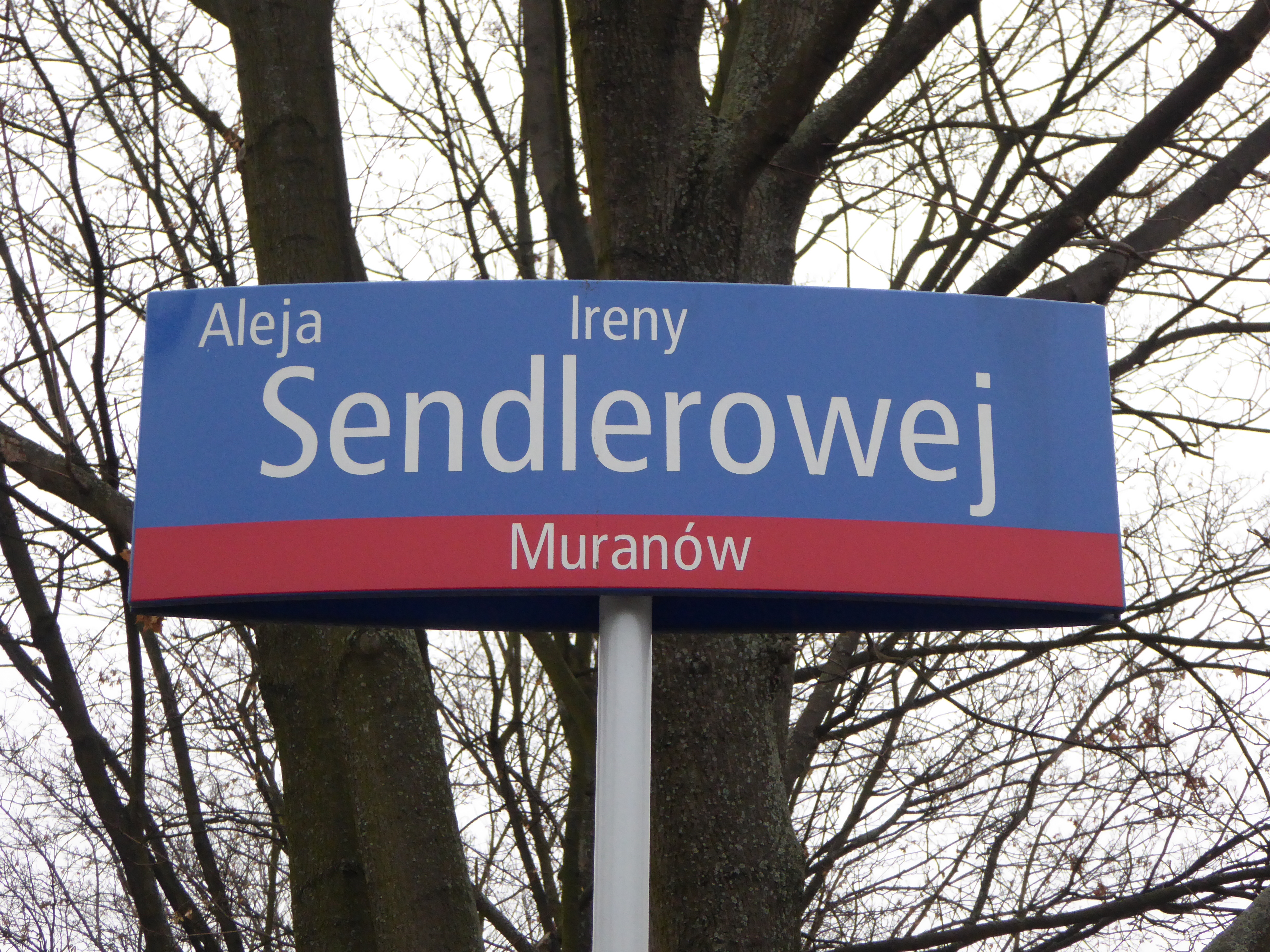 The walkway in front of the POLIN Museum of the History of Polish Jews has been named after Irena Sendler....